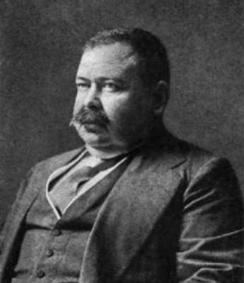 Halil Menteşe, Ottoman Foreign Minister and President of the last Ottoman Parliment Halil Menteşe, Osmanlı Hariciye Nazırı ve son Osmanlı Meclis-i Mebusan başkanı